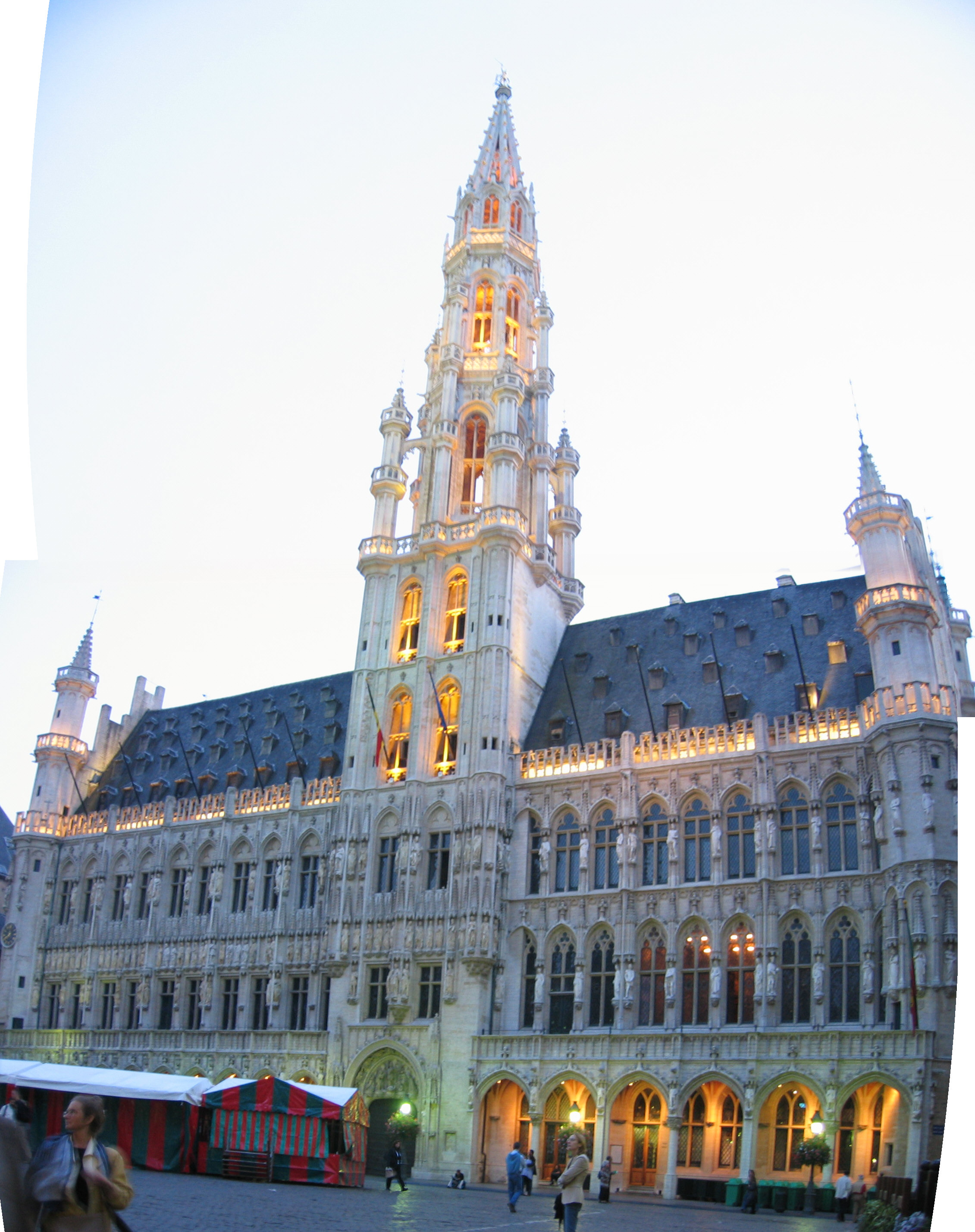 The city hall in Bruxelles - Grand Place